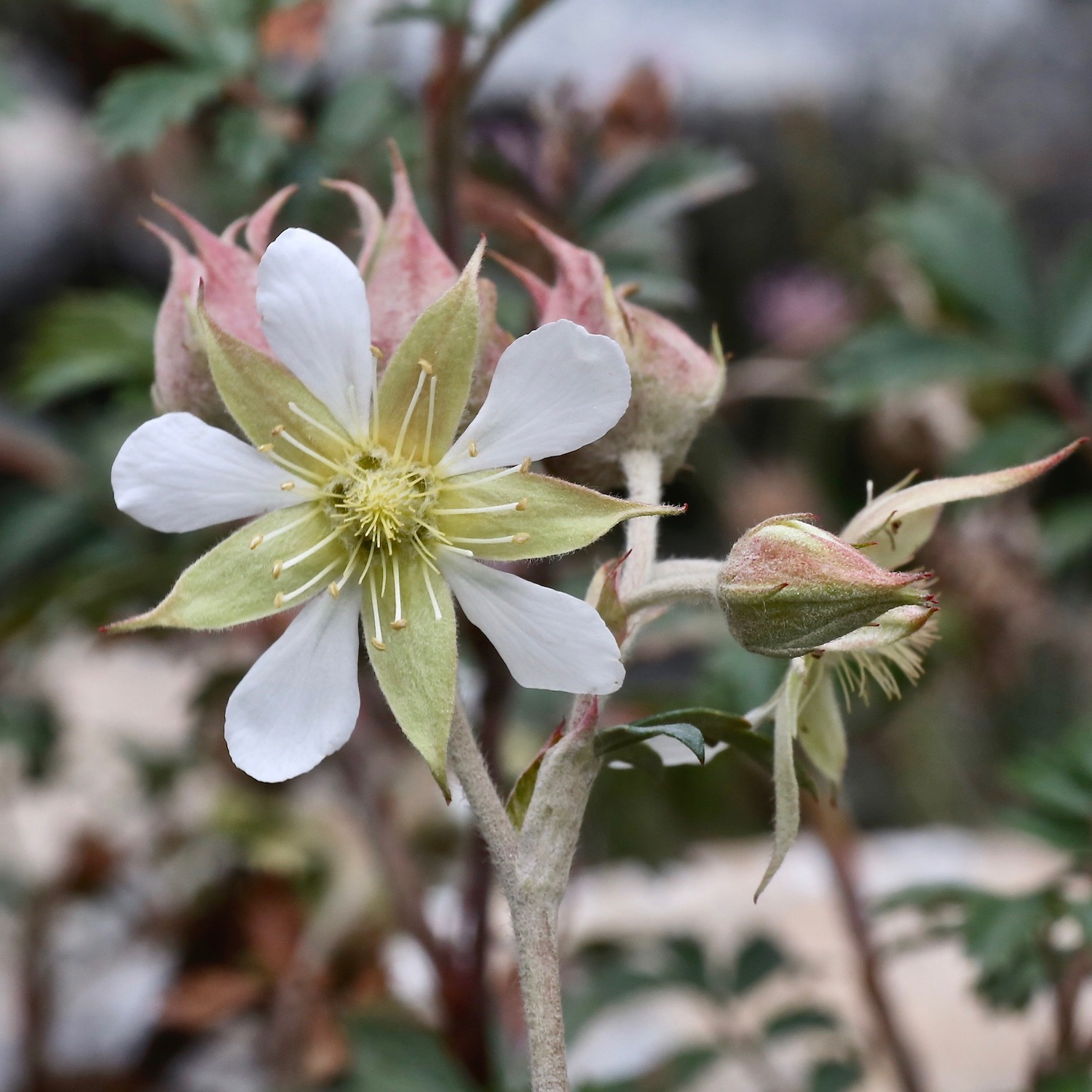 Comarum salesovianum (Rosaceae) Kyrgyzstan, in vicinity of Barskoon Pass